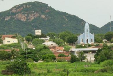 View of Ipueira, Brazil.